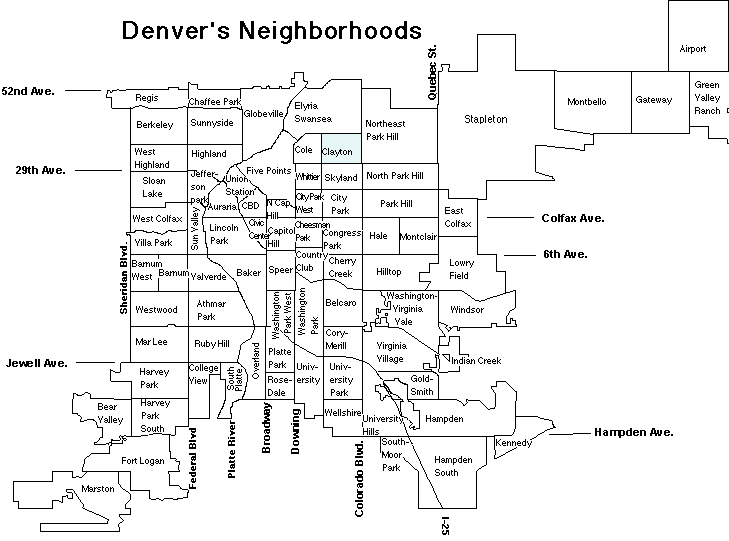 ClaytonDenver